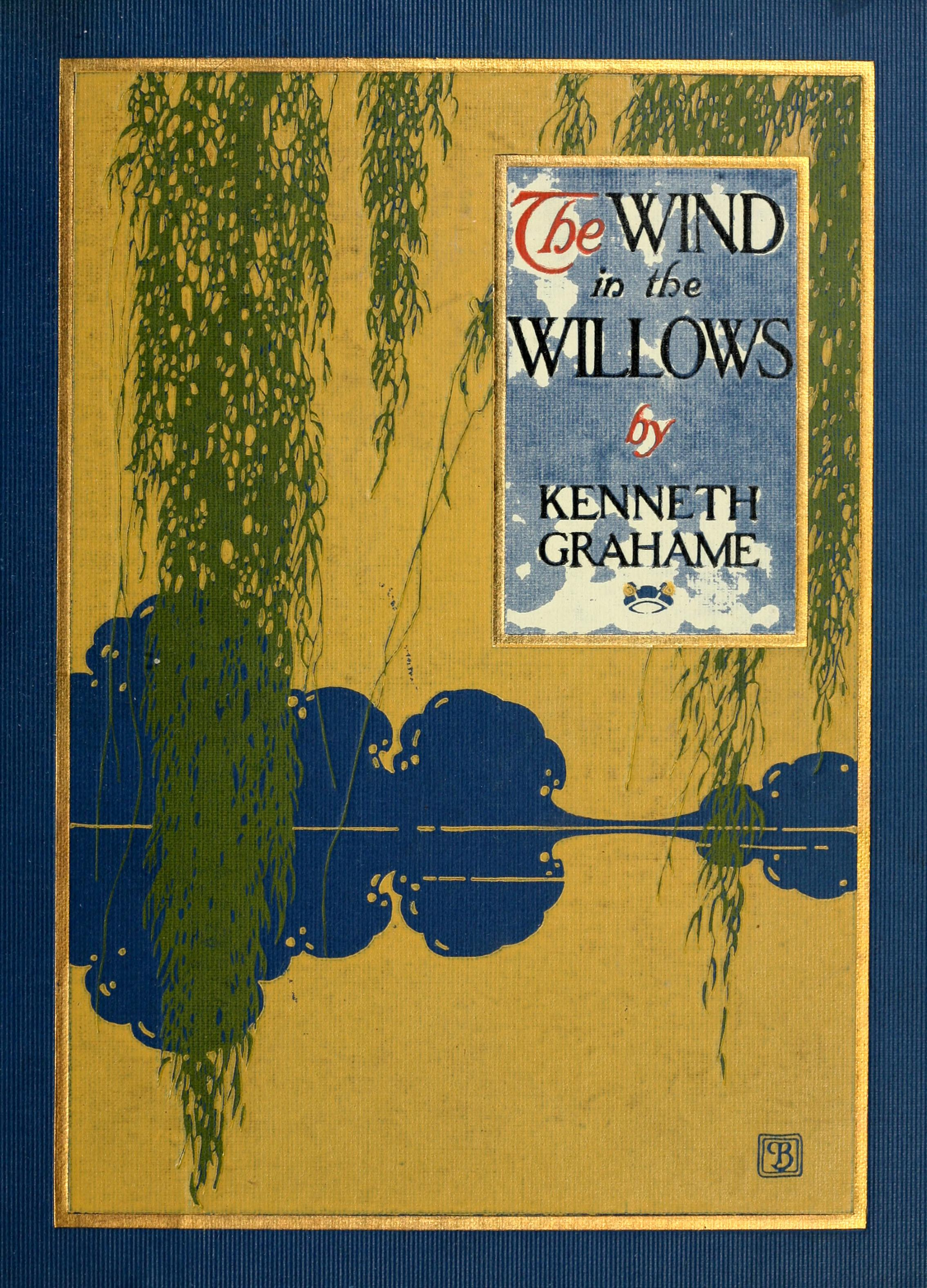 Front cover of Wind in the Willows